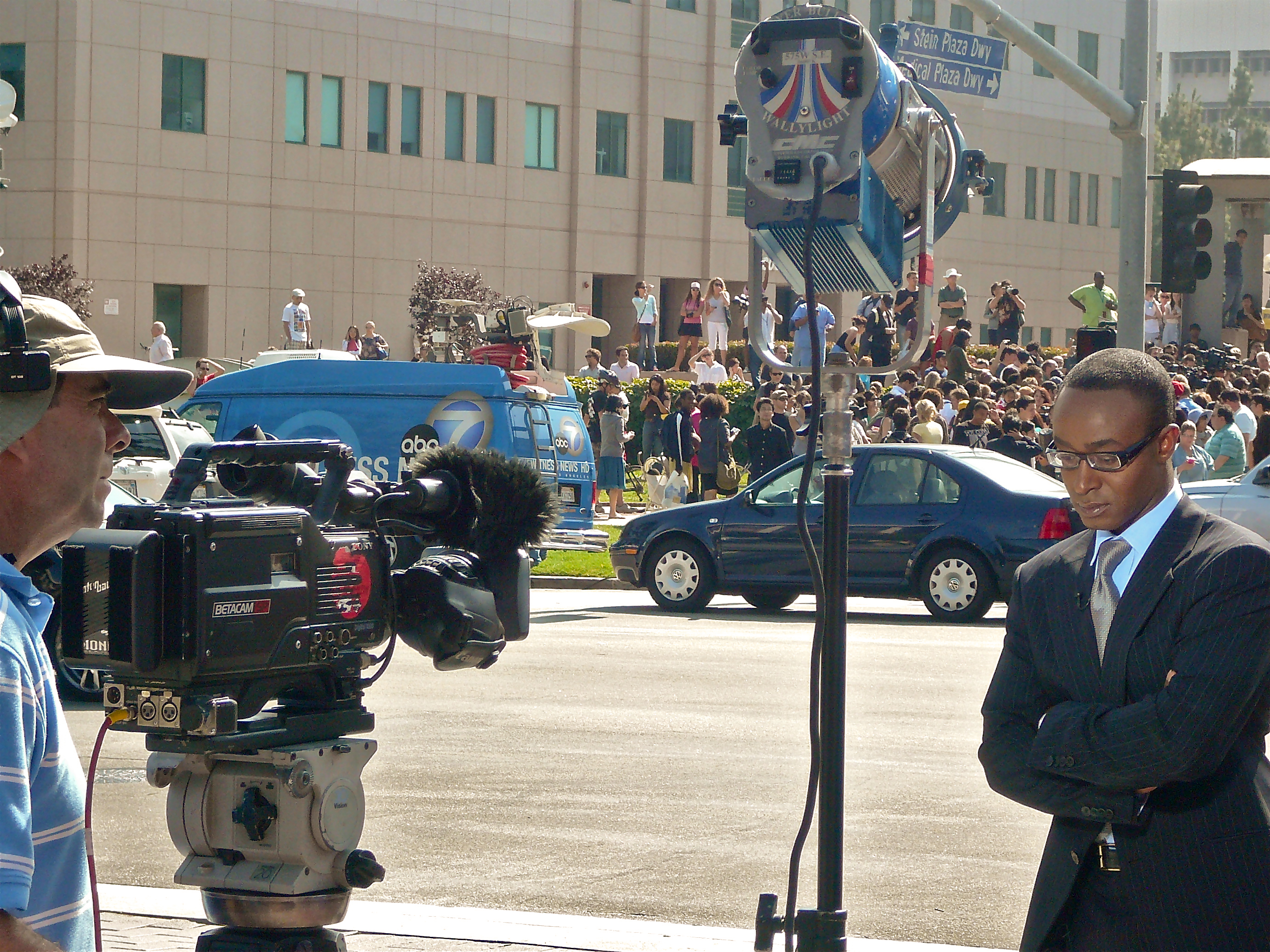 Outside UCLA Medical Center at Michael Jackson's death (journalist Michael Okwu, right).